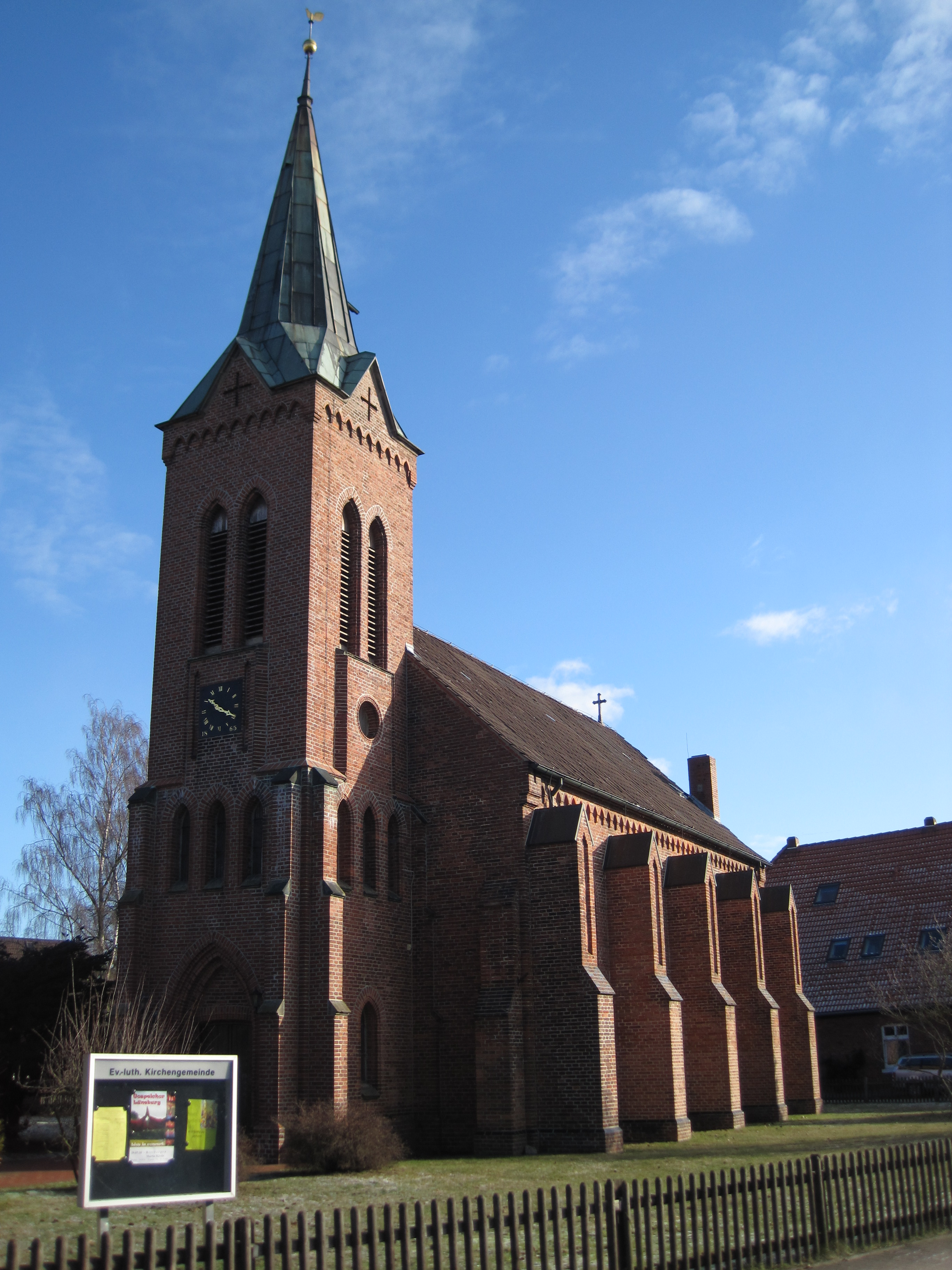 Church in Echem near Lüneburg